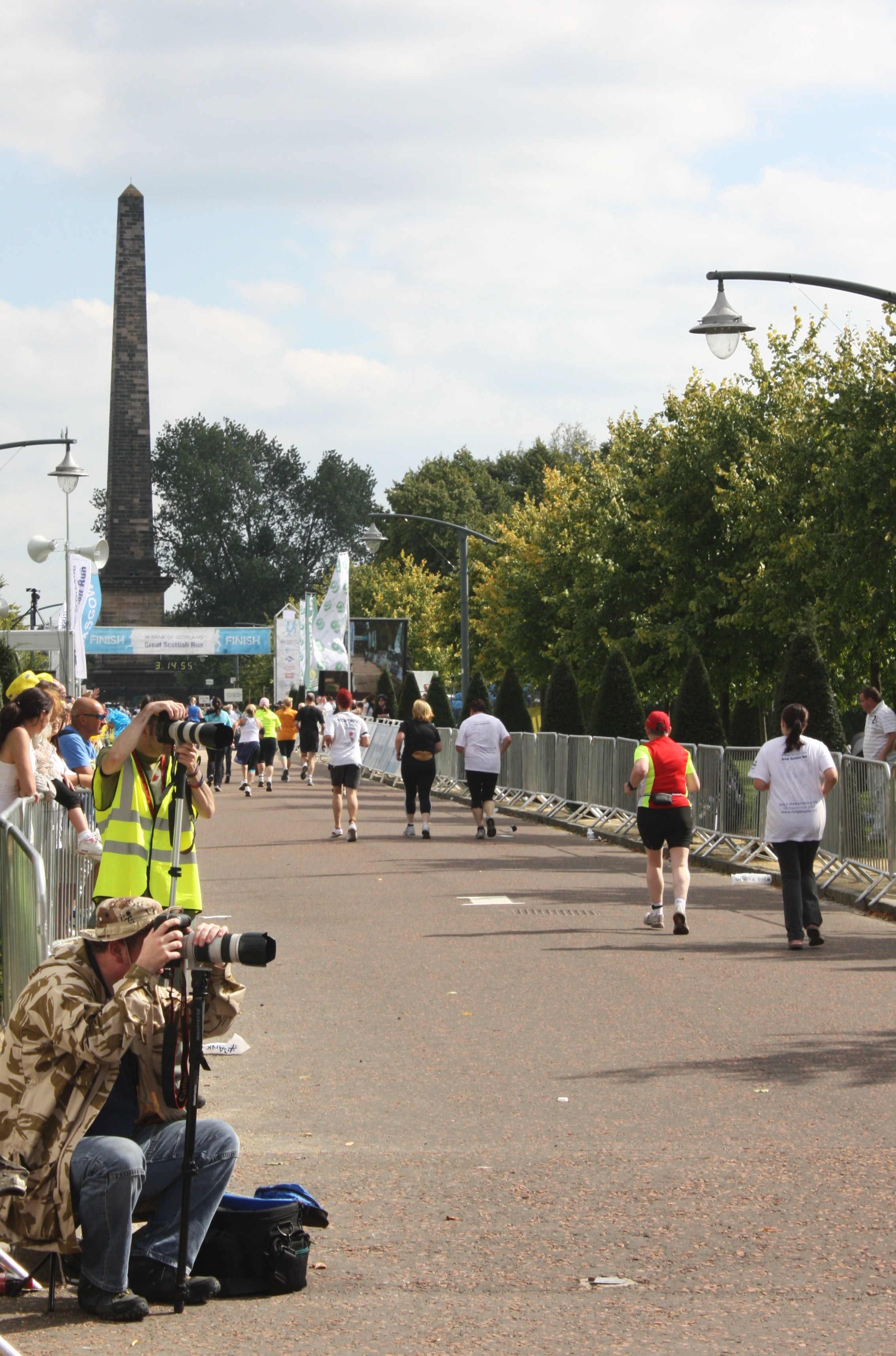 Finish line of the 2010 Great Scottish Run, in Glasgow Green, Glasgow, Scotland.